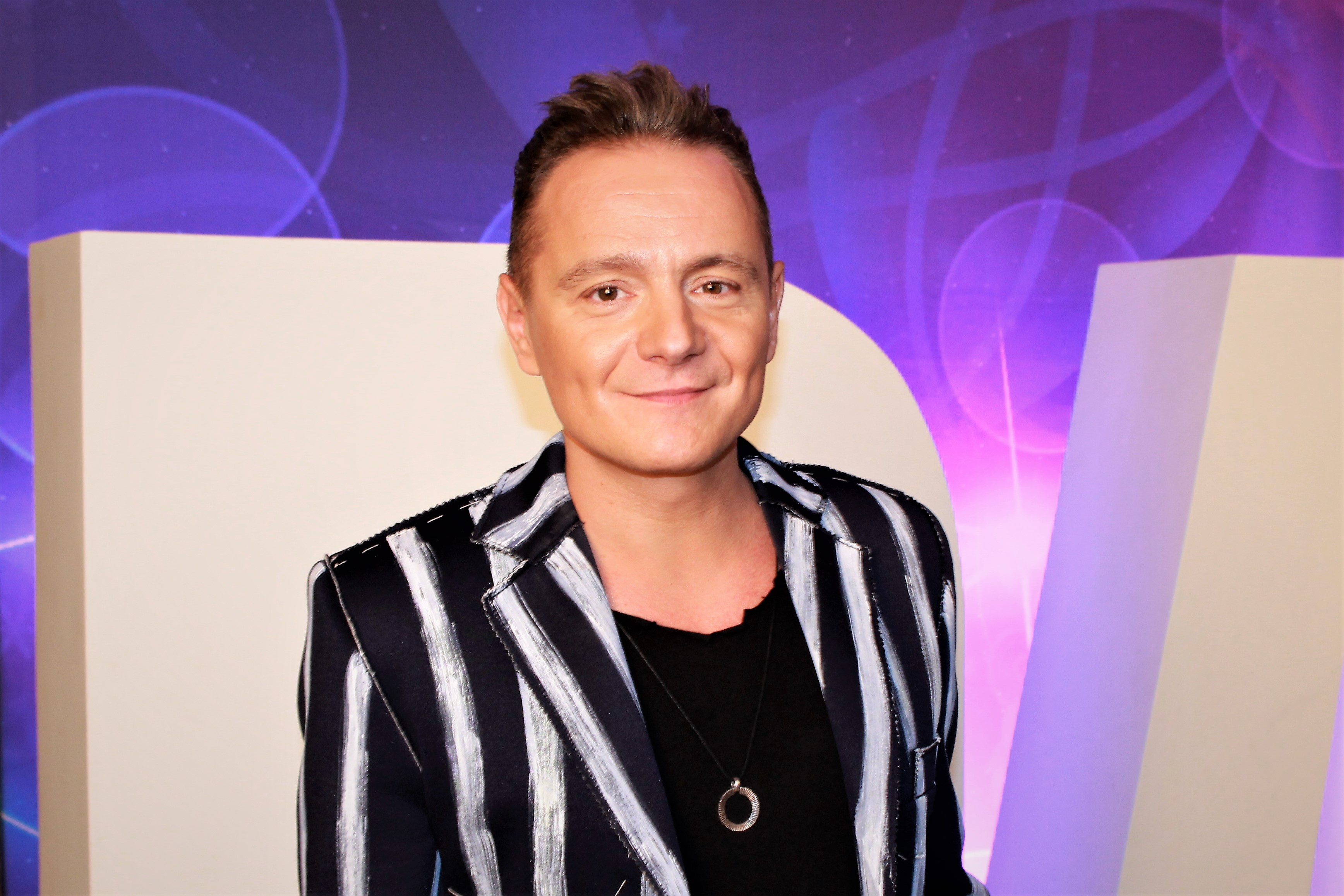 A Dal 2018 participant: Gábor Heincz "BIGA"